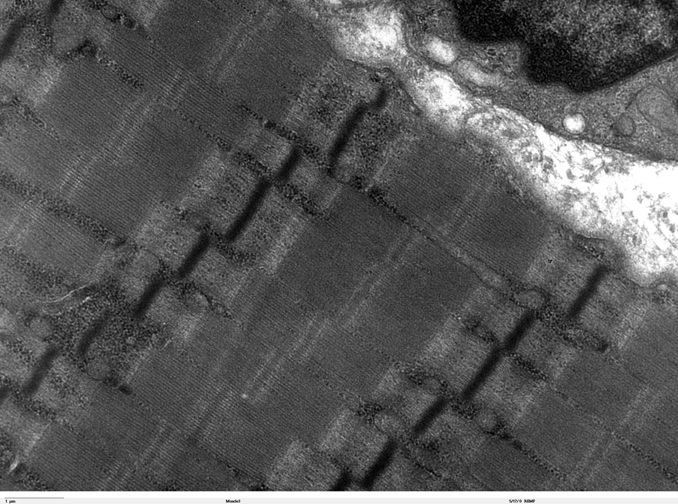 Transmission electron microscope image of a thin longitudinal section cut through an area of human skeletal muscle tissue. Image shows several myofibrils, each with distinct banding pattern of individual sarcomeres. Image of muscle sarcomeres shows distinct banding pattern: the darker bands are called A bands(the A band includes a lighter central zone, called the H band), and the lighter bands are called I bands. Each I band is bisected by a dark transverse line called the Z-line). Paired mitochondria are on either side of the electron opaque Z-line. The Z-Line marks the longitudinal extent of a sarcomere unit. JEOL 100CX TEM